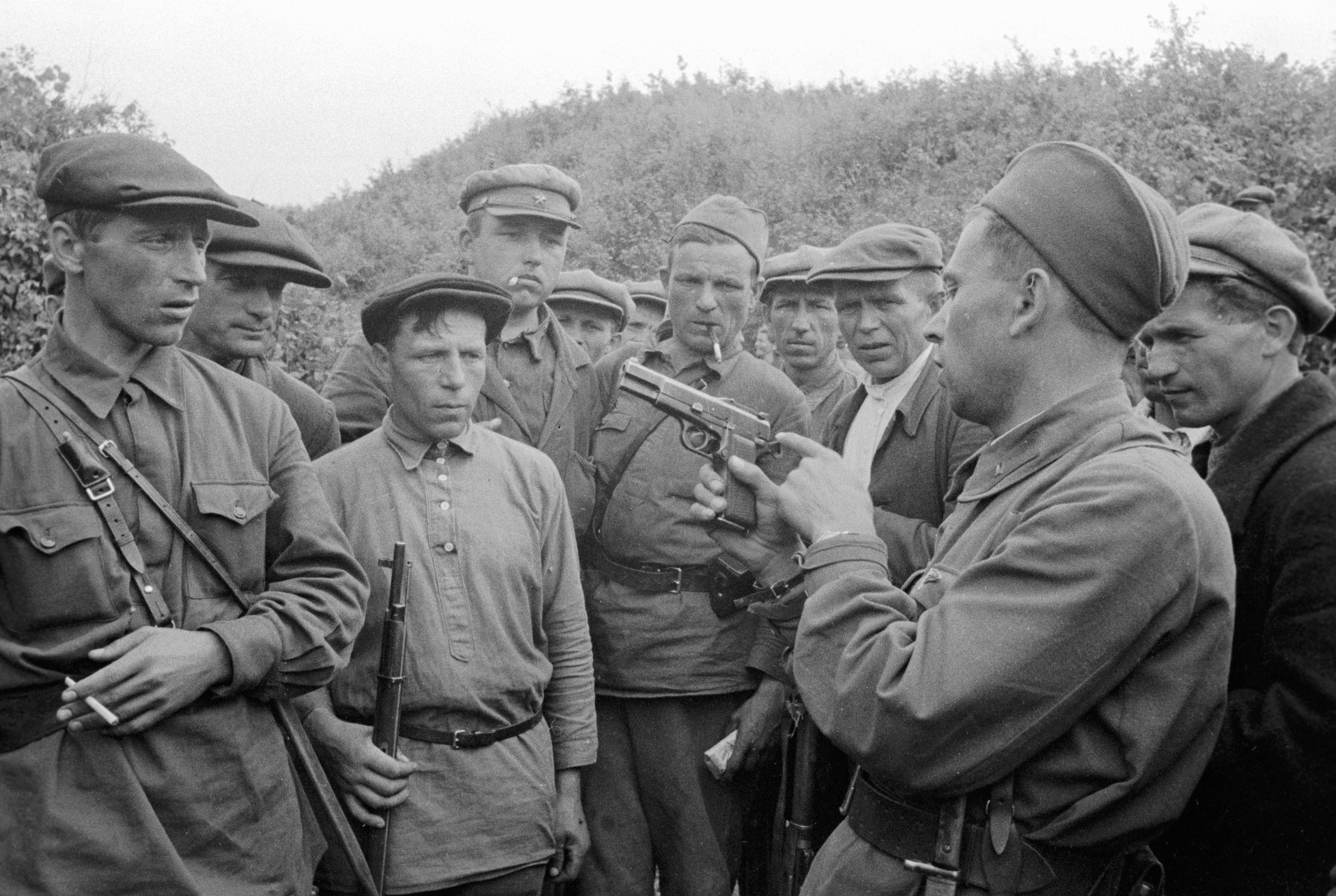 “A guerrilla commander teaching his fighters to use weapons”. A guerrilla commander teaching his fighters to use weapons. The Smolensk region, Russia.